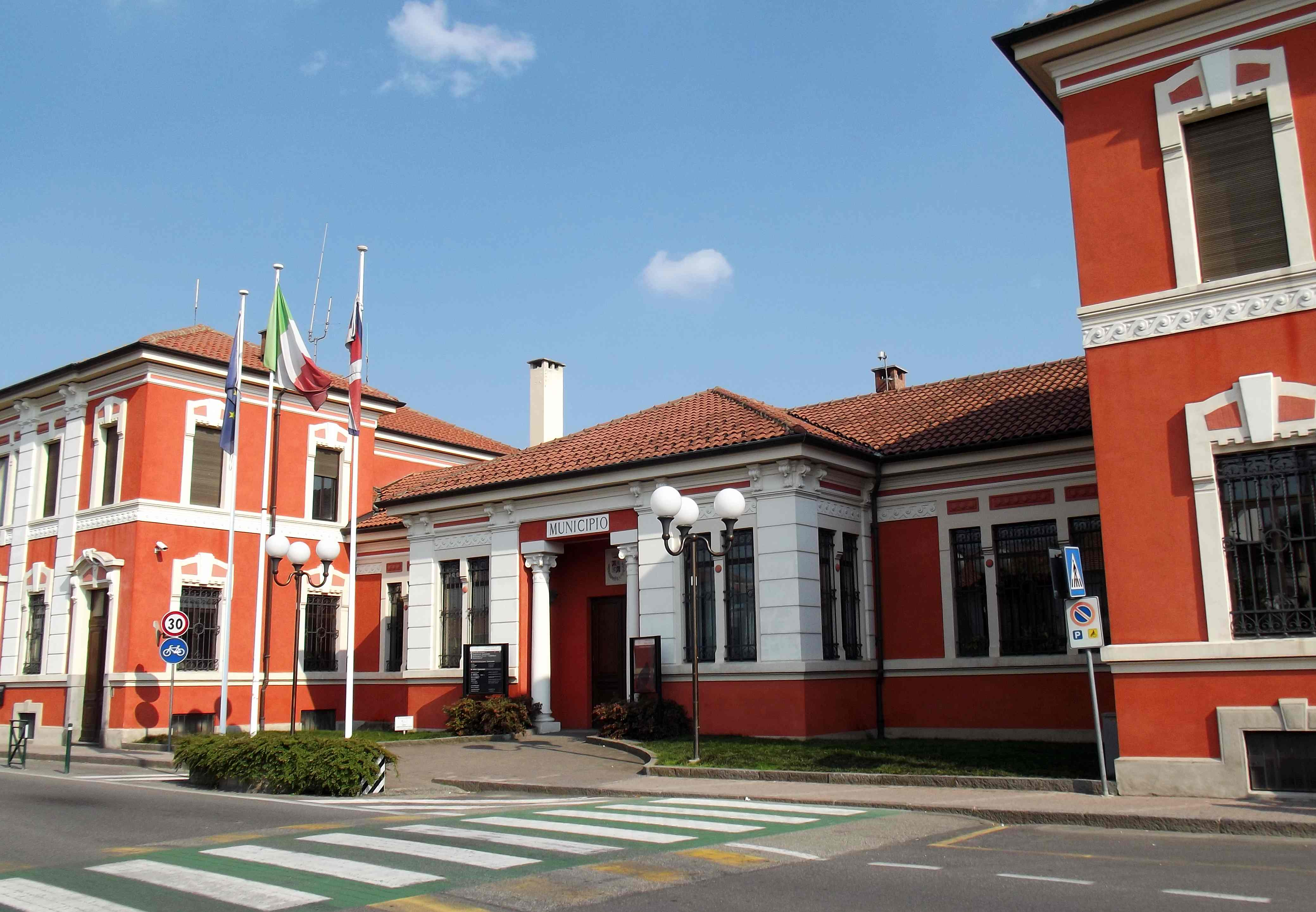 Gaglianico (BI, Italy): town hall